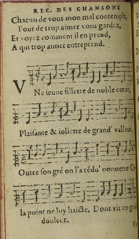 French folk song "Une jeune fillette" published in the collection of chansons by Jehan Chardavoine in Paris in 1576